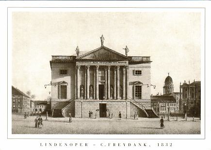 Berliner Staatsoper, modern postcard of an 1832 painting by C. Freydank